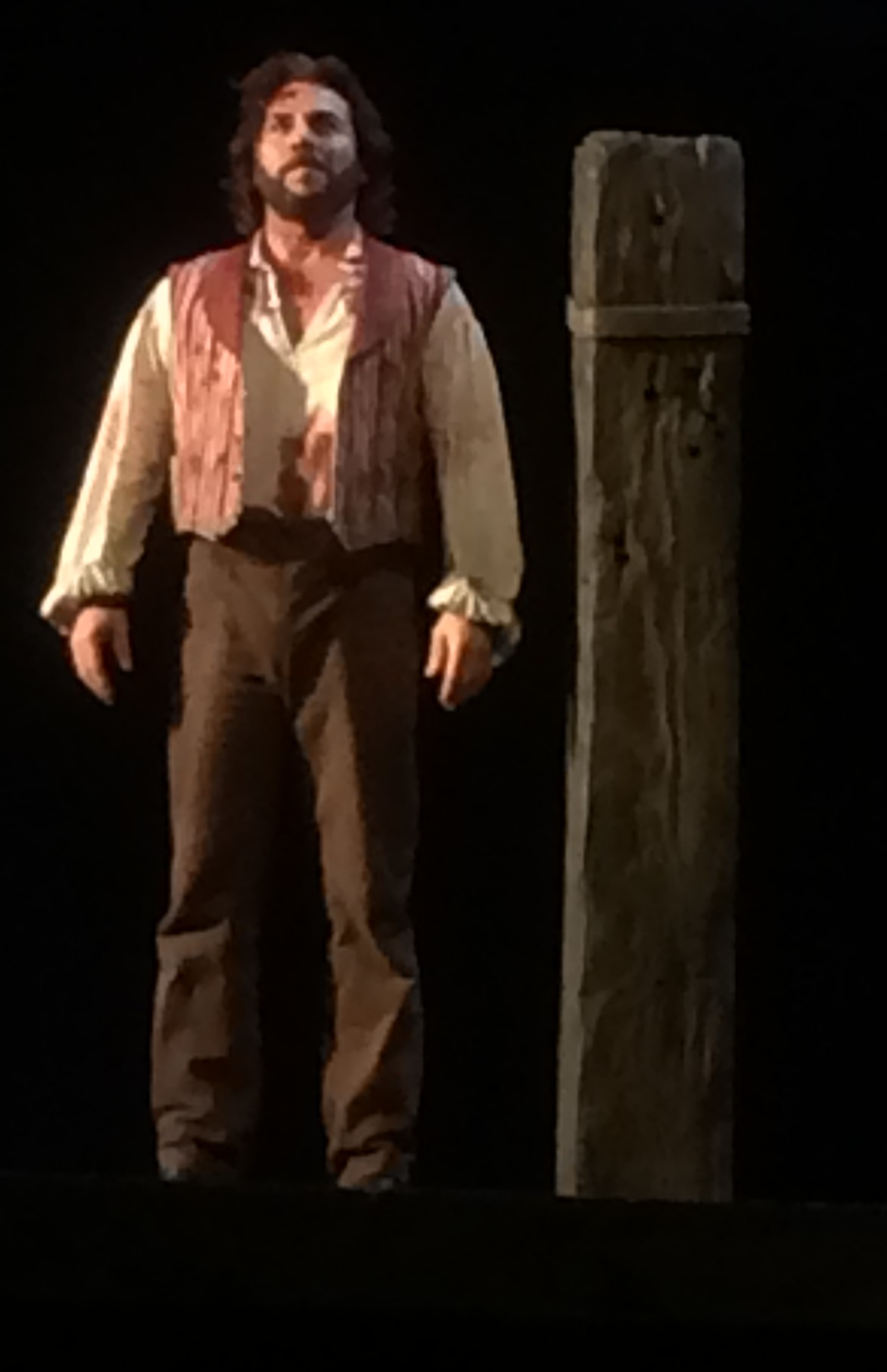 Roberto Alagna as Mario Cavaradossi at London's Royal Opera House (taken during curtain call after performance)